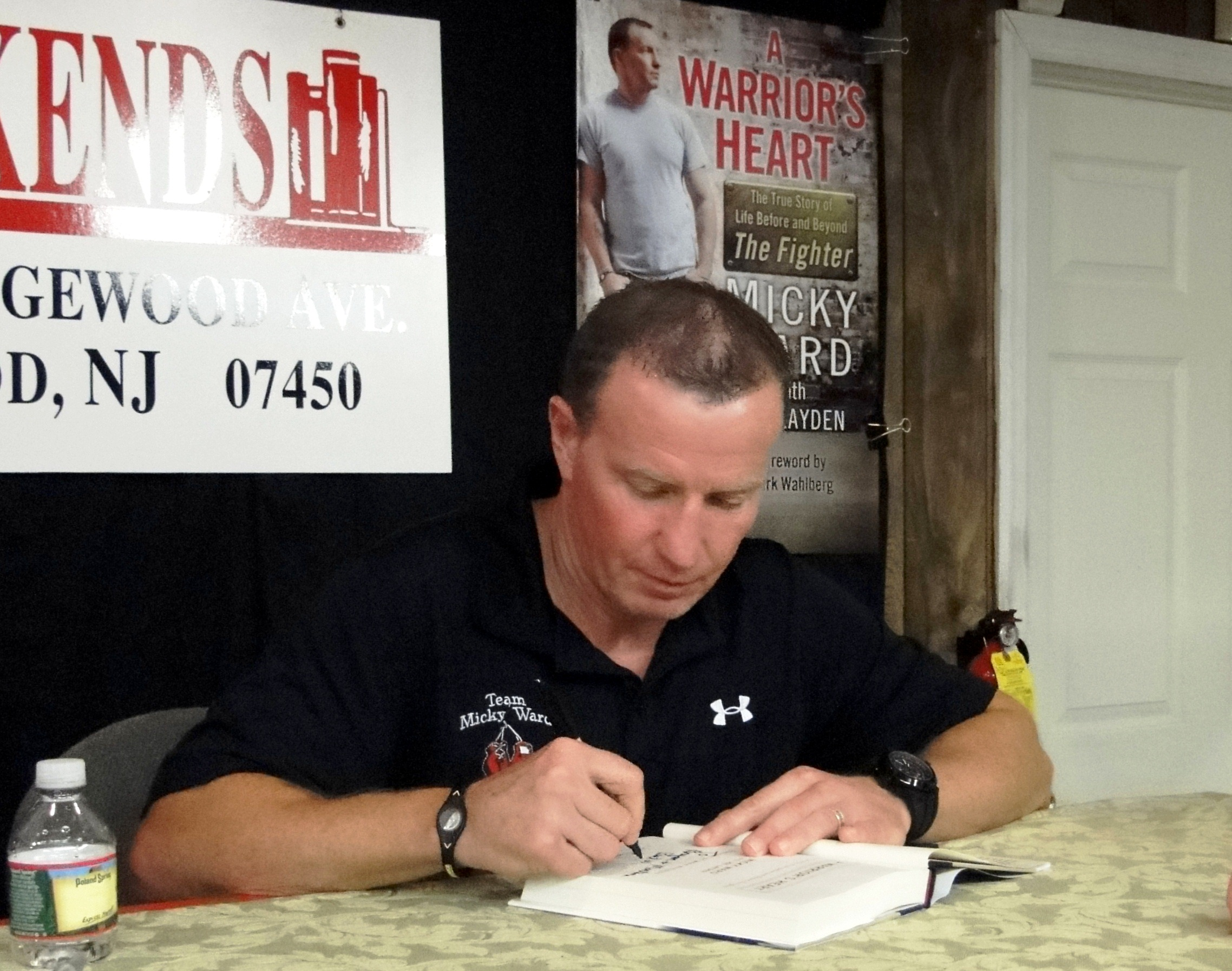 Micky Ward signing his autobiography, A Warrior's Heart: The True Story of Life Before and Beyond The Fighter (published on May 29, 2012), at the Bookends in Ridgewood, New Jersey.